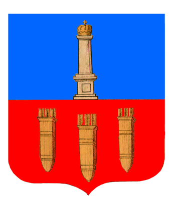 Coat of arms of Alatyr (Russia)